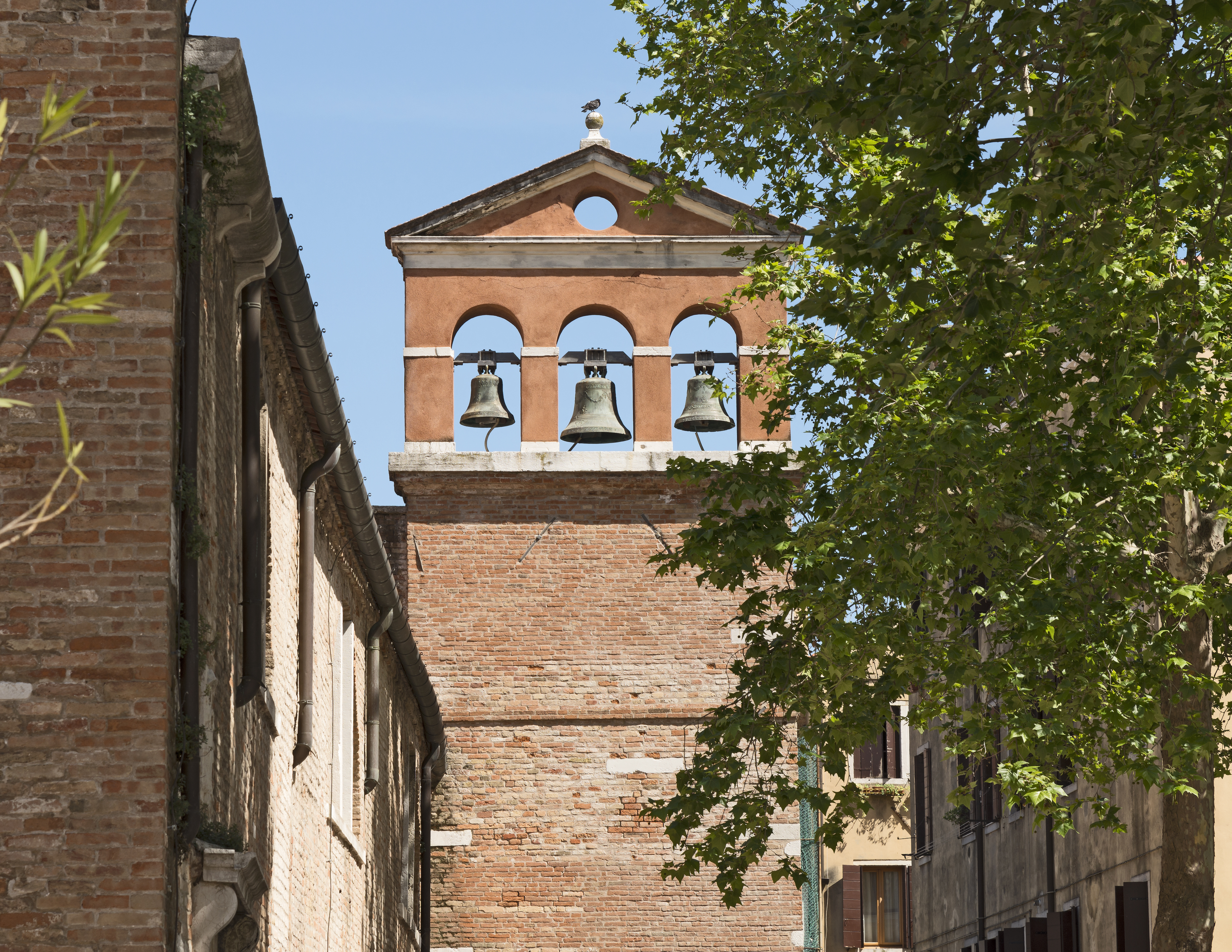 Church Sant'Agnese in Venice - Bell gabel